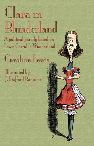 2010 edition cover of Clara in Blunderland